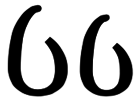 Unicode characters U+1EFC and U+1EFD: Latin Capital/Small Letter Middle Welsh V